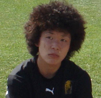 Eriko Arakawa photographed during the LA Sol vs. FC Gold Pride scrimmage at the Home Depot Center